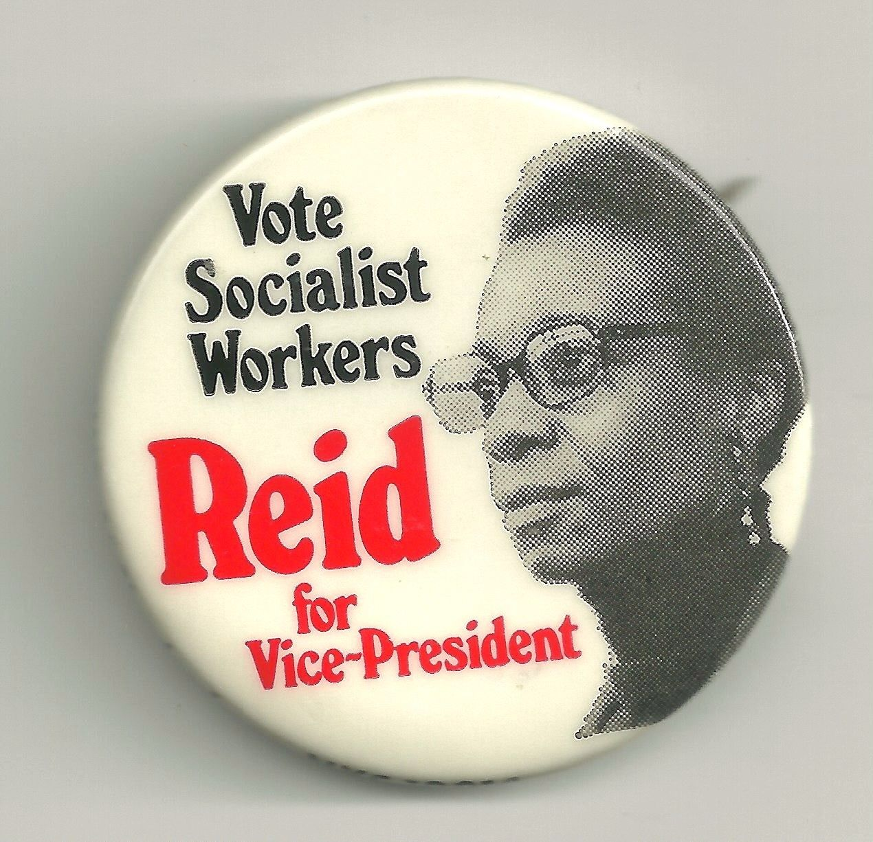 1976 campaign button for Willie Mae Reid's run for U.S. Vice President